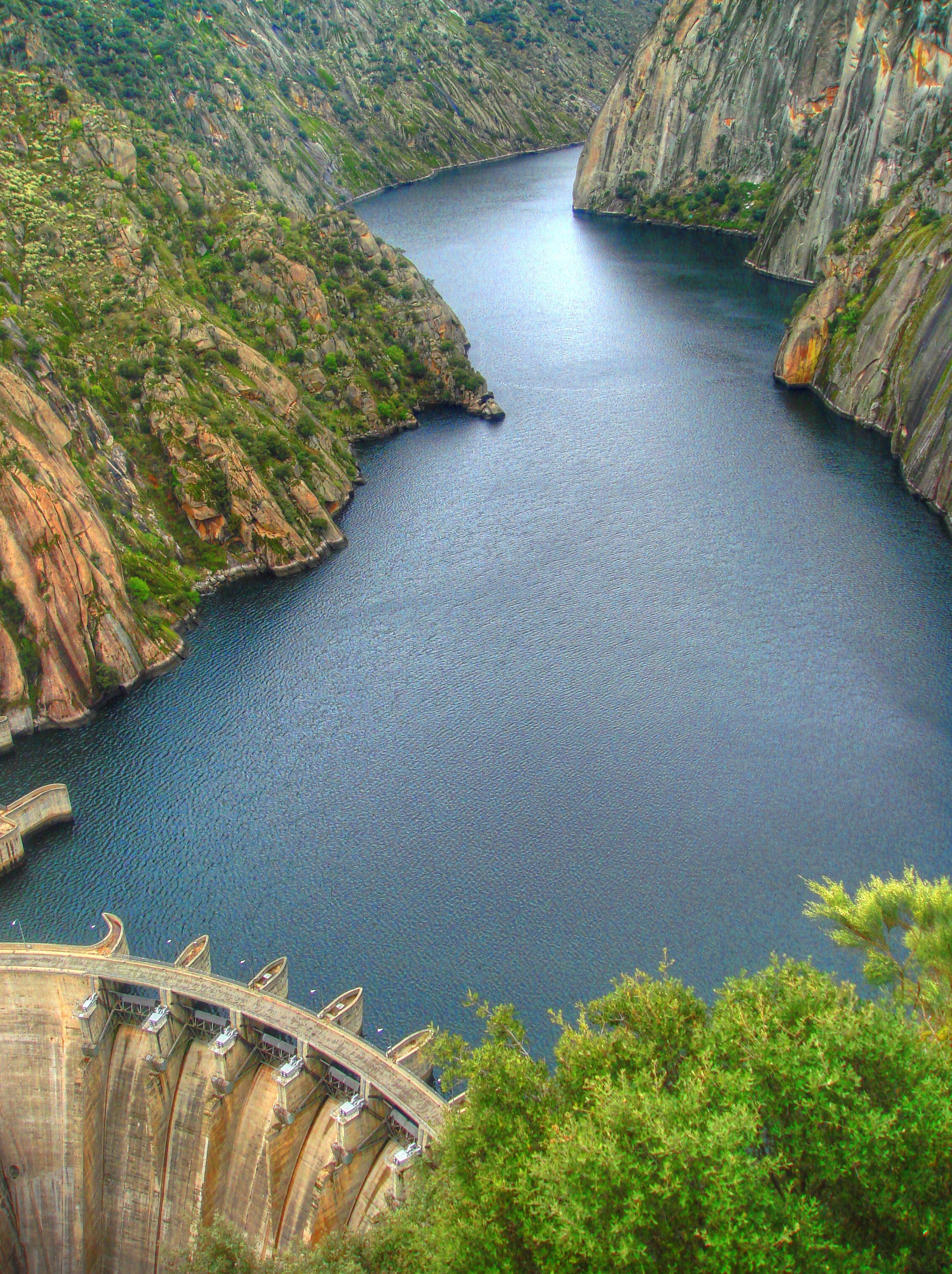 The Aldeadávila Dam, between Spain and Portugal. Watermark has been removed using the GIMP resynthesizer plugin (smart remove).